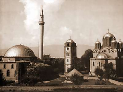 Old photo of Uroševac.